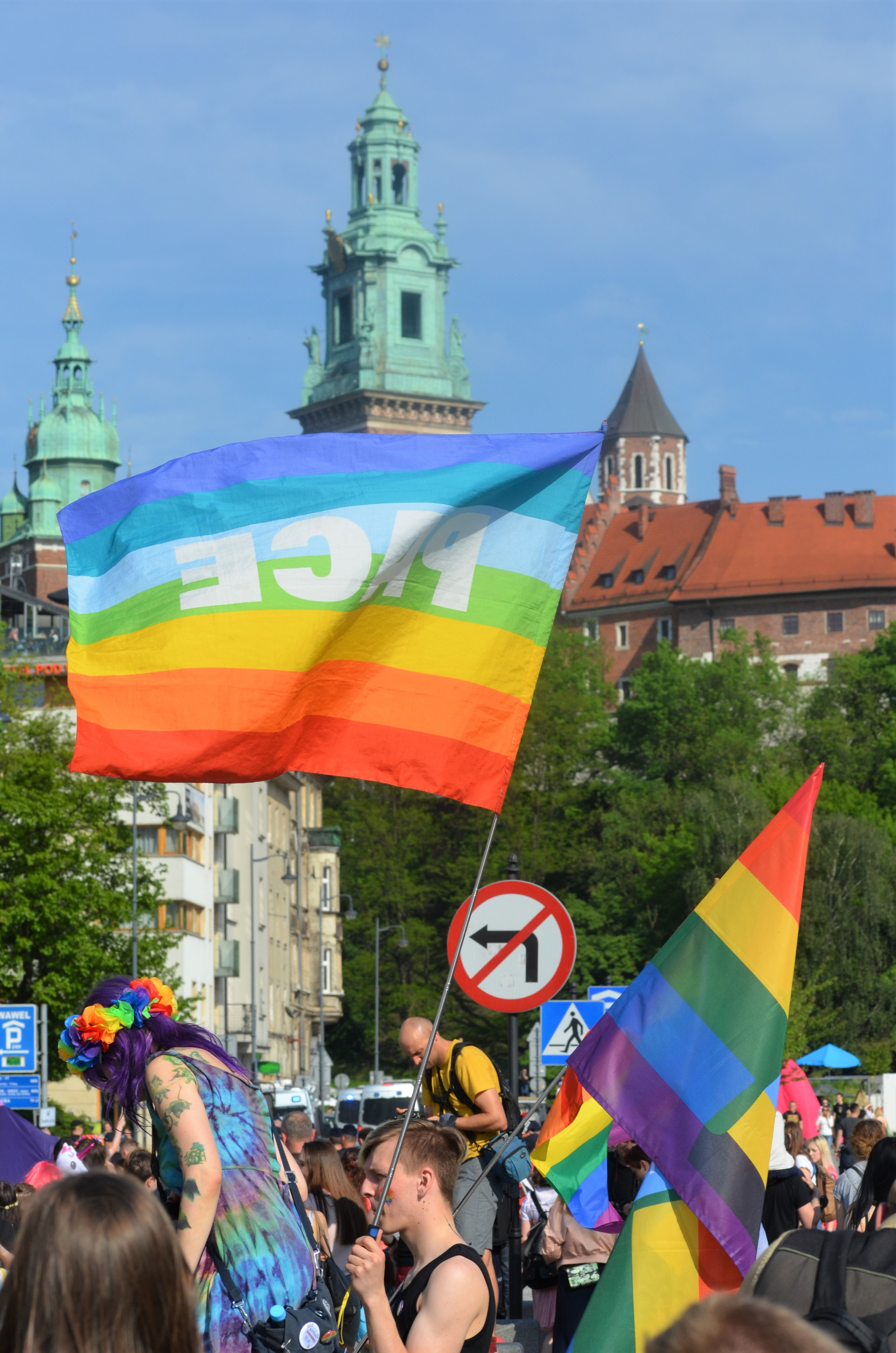 Equality March 2019 in Kraków